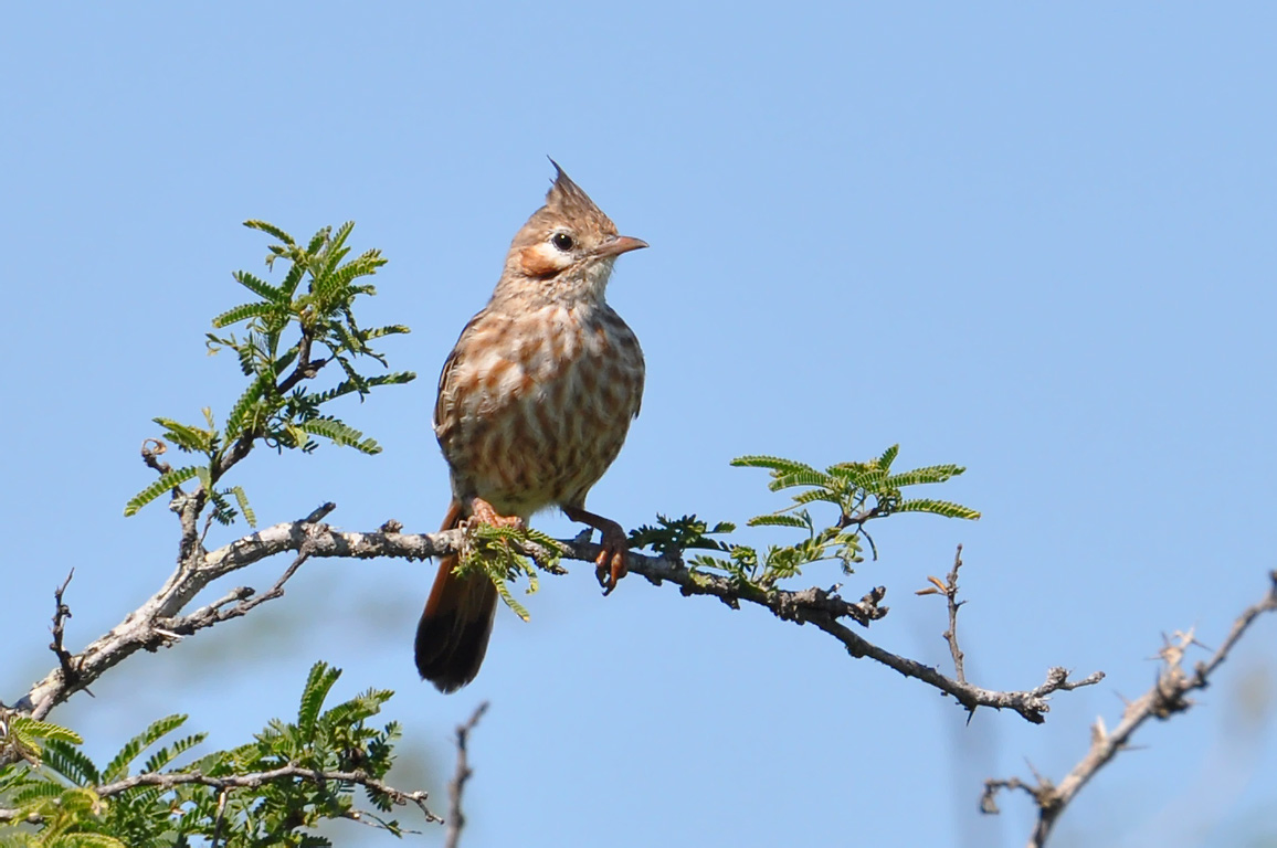 Lark-like Bushrunner Coryphistera alaudina alaudina photographed in Quarai, Rio Grande do Sul, Brazil, in April 2011.